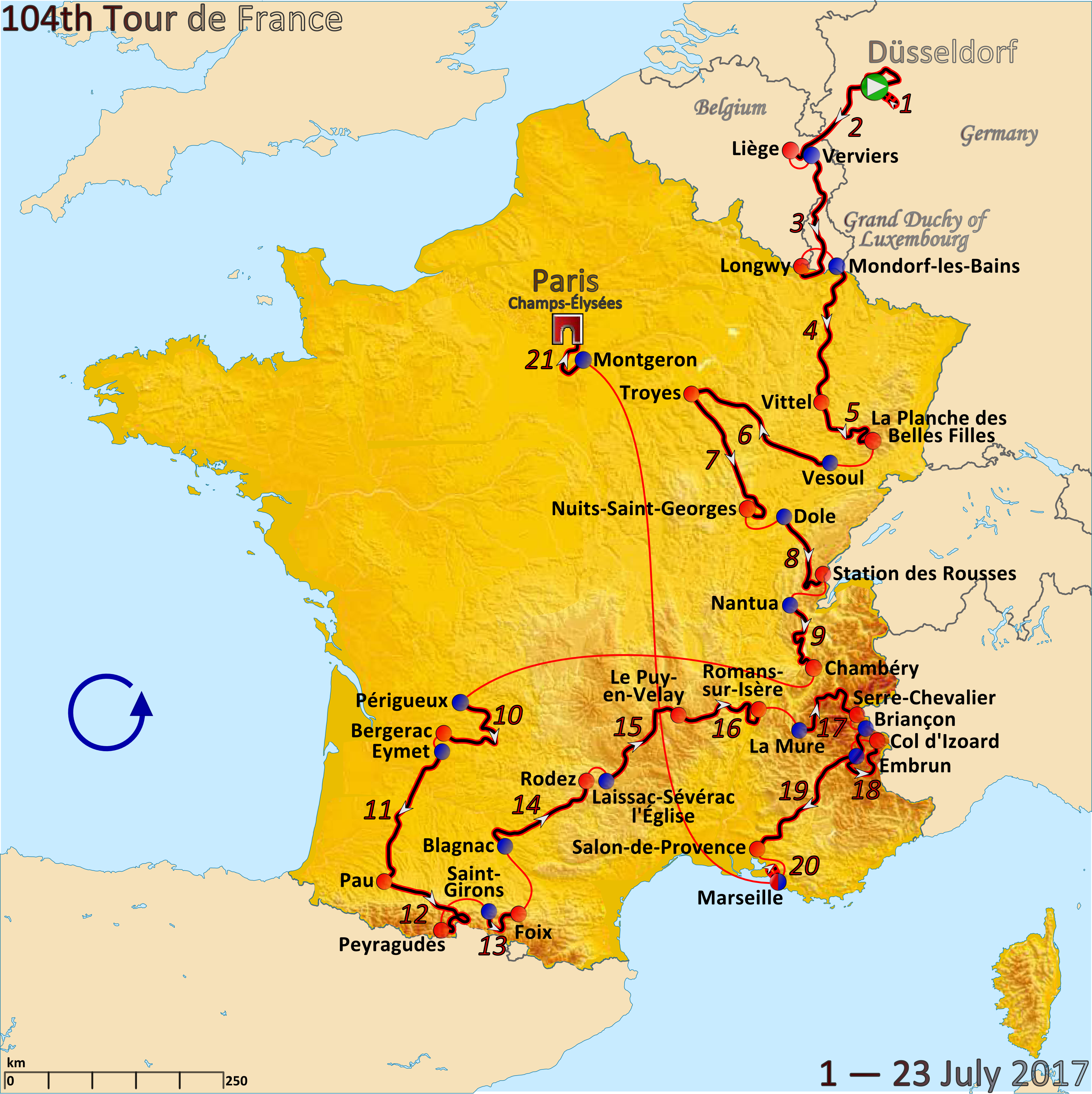 Route of the 2017 Tour de France created in Inkscape.